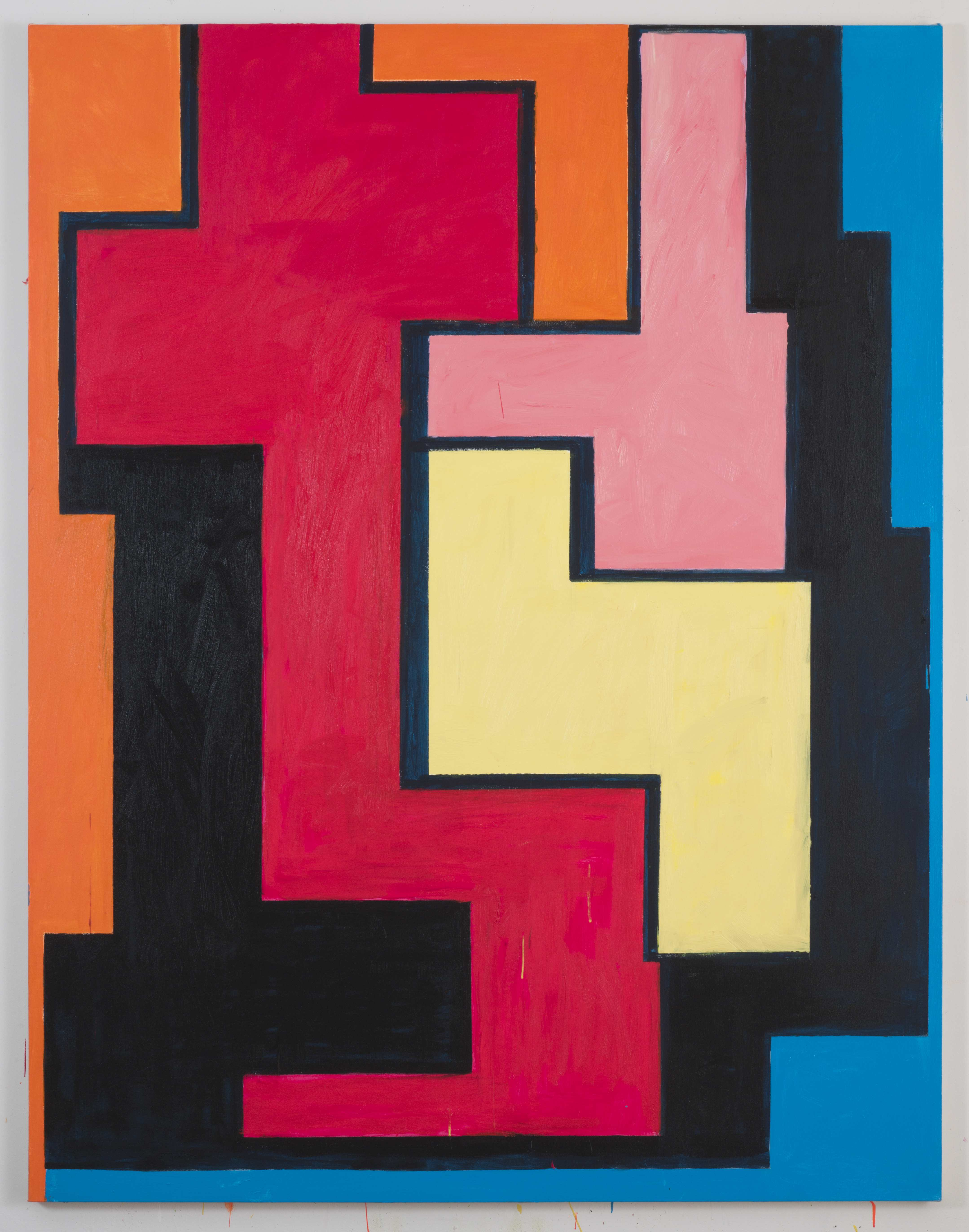 Thornton Willis "Juggernaut", 2010, Oil on Canvas, 79x61 inches. Other information This photograph represents an entire body of work.